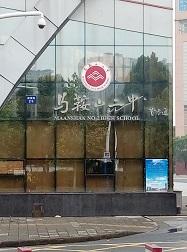 The Title on the side of Ma'anshan No.2 High School.